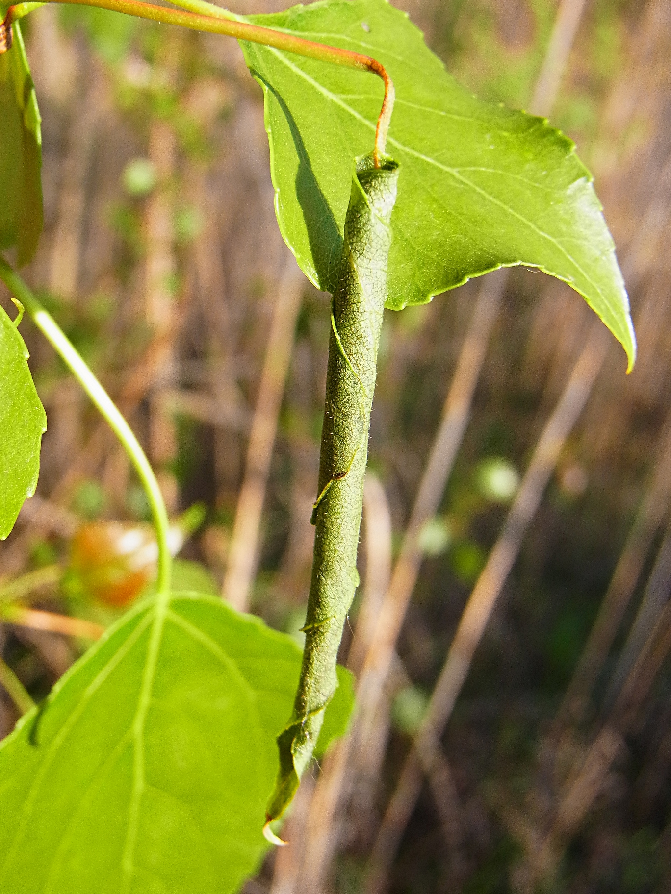 Cigar of Byctiscus populi from Hungary near Gyékényes at 2012-04-25